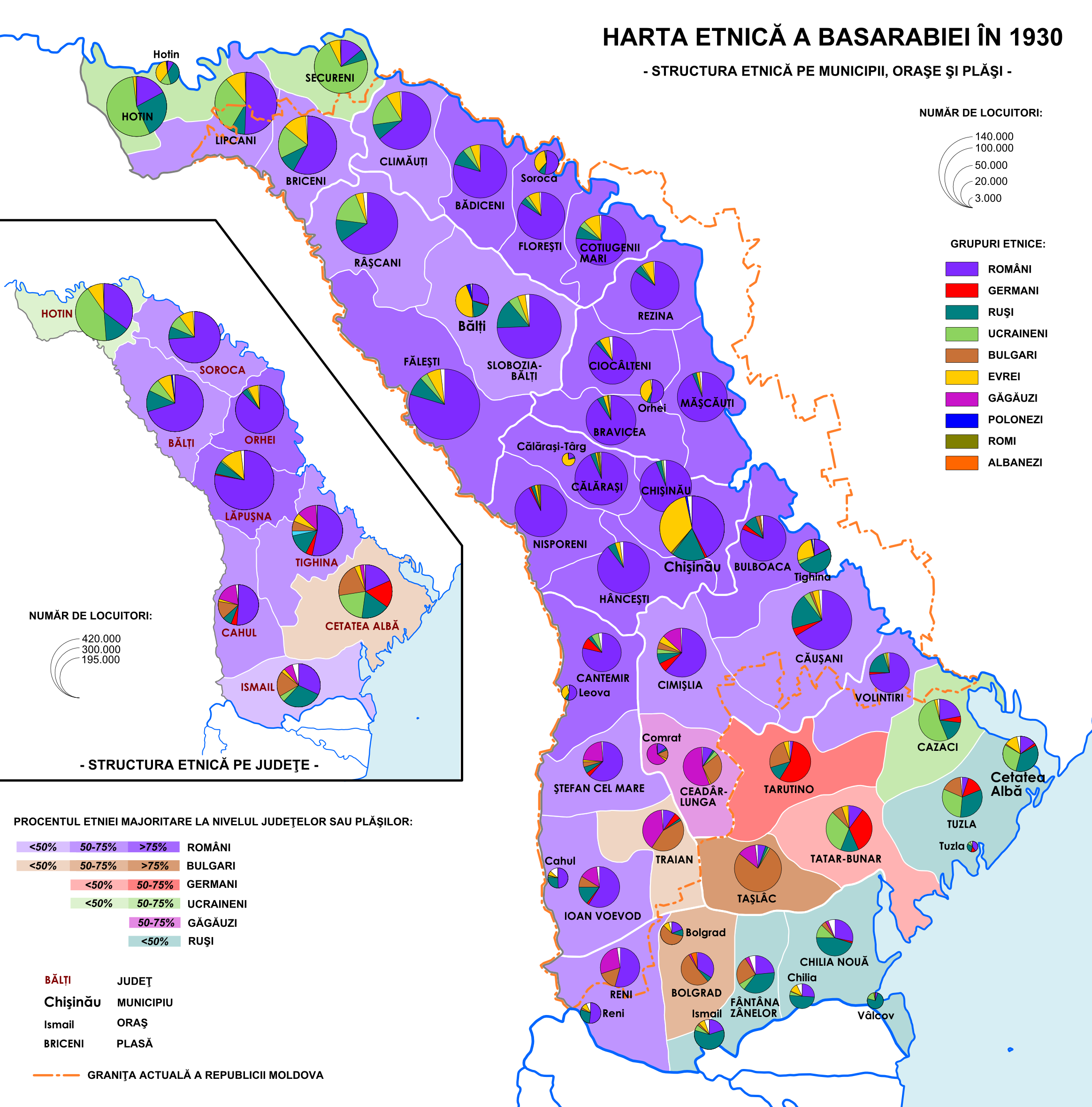 Ethnic map of Bessarabia according to the 1930 Romanian census.